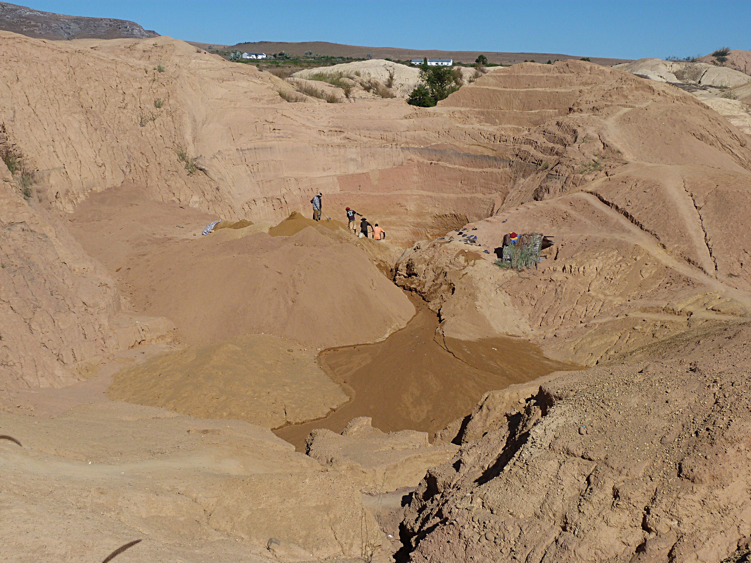 Opencast mining, Ilakaka Madagascar.